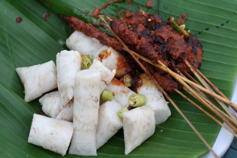 Sate Bulayak in Lombok.